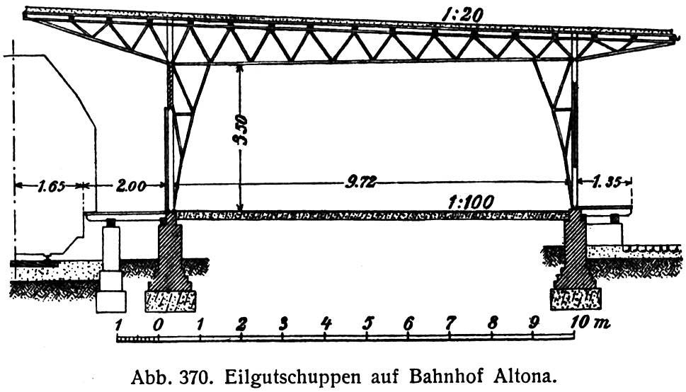 Railway express goods shed, Altona, Germany